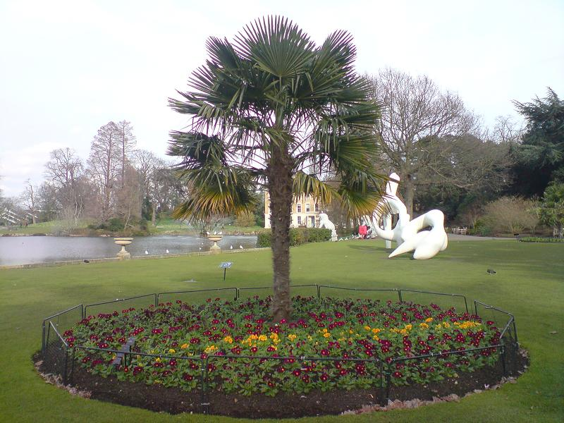 Chusan Palm Trachycarpus fortunei in Kew Gardens, London, England.